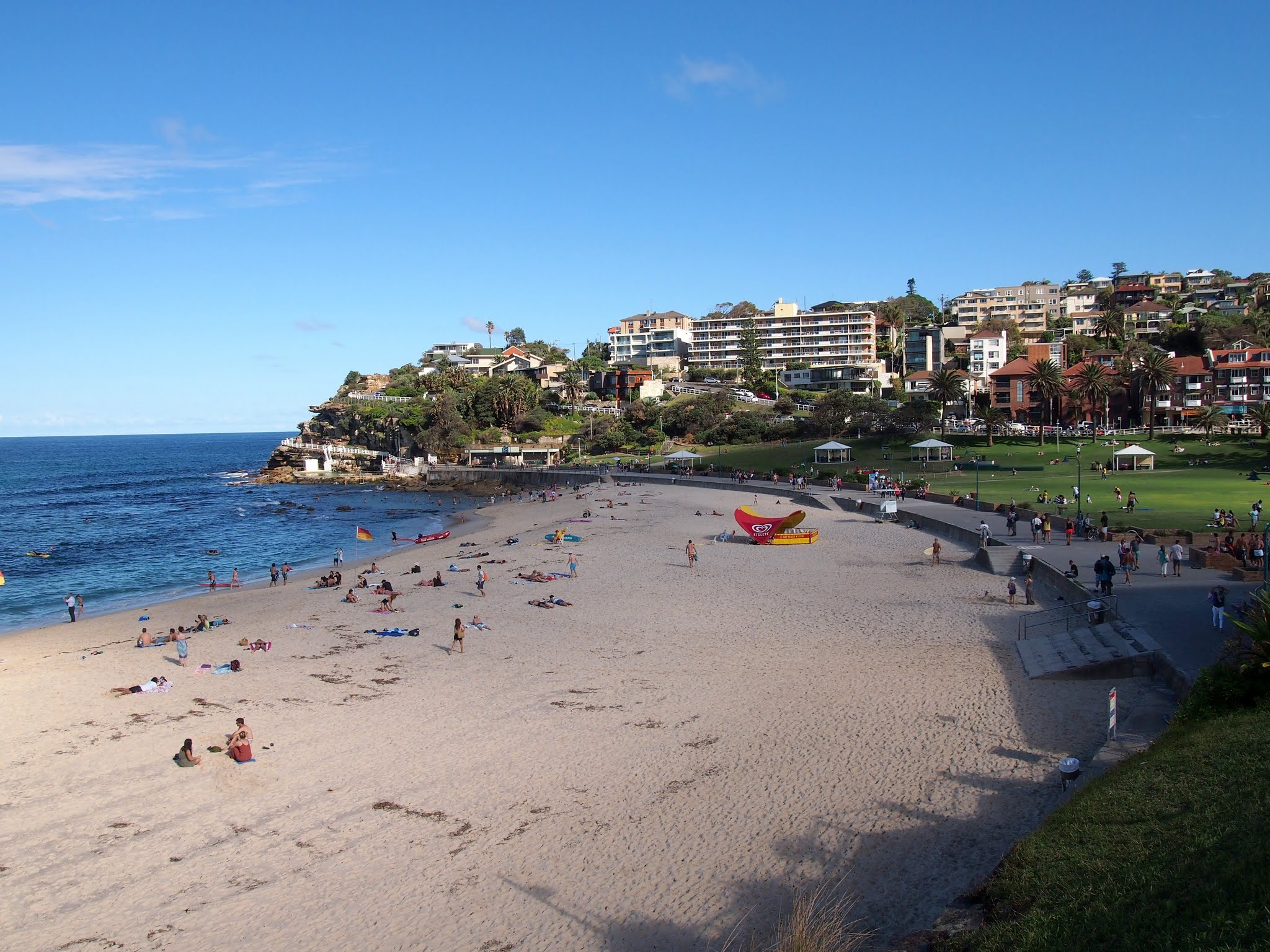 Bronte Beach